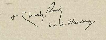 Signature of Charles Eugène Ruch bishop of Strasbourg (France)